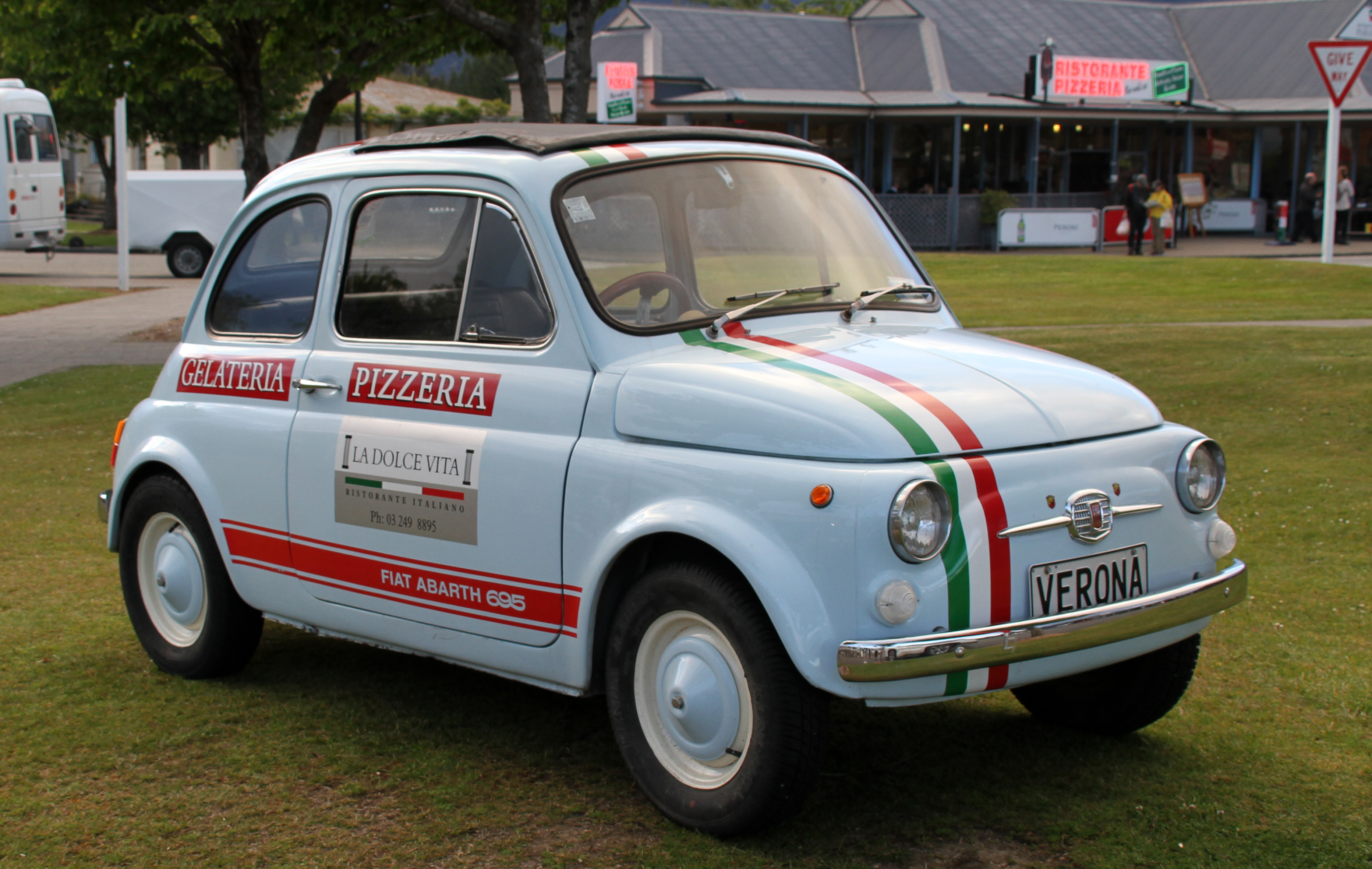 Fiat 500 Abarth